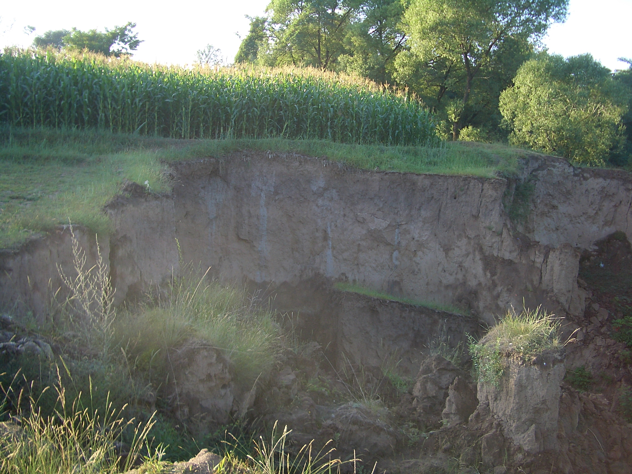 The eroding edge of the loess plateau just north of Linxia City (near the Wanshou Guan pagoda)